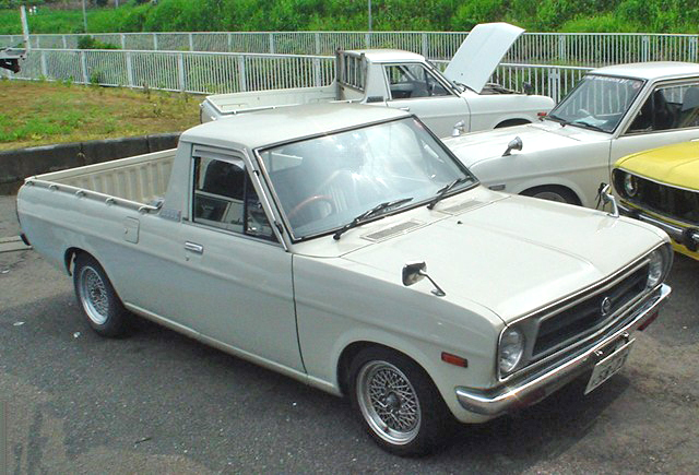 Nissan B121 Sunny Truck (A12 engine)